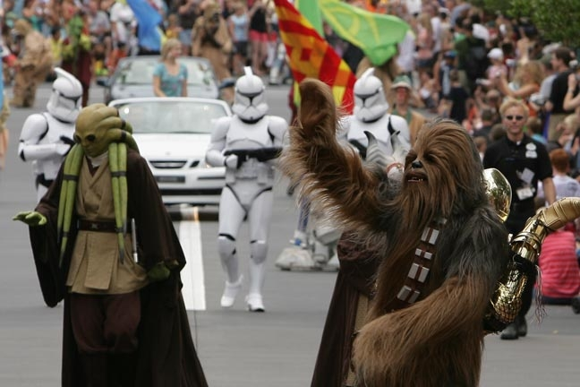 Chewbacca and Kit Fisto lead a trio of clone troopers in the parade.... Photo by Matt Stroshane. For video coverage of the first Disney Weekend of 2007, click here .